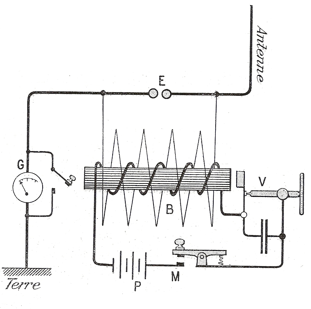 Spark-gap radio transmitter circuit used by Guglielmo Marconi in his experiments with radio transmission around 1895. It consists of an induction coil B which causes sparks to jump across a spark gap E, creating oscillating electric currents in the wire monopole antenna which are radiated as radio waves. The vibrating interrupter contact on the coil V broke the primary current from the battery B 30-50 times per second, creating the high voltage output from the coil. The radio operator used the telegraph key M to turn the power to the transmitter on and off rapidly, producing different length pulses of radio waves, to spell out text messages in Morse code. The hot-wire ammeter G measured the RF power radiated; when not in use the switch was closed to cut it out of the circuit. Marconi experimented with early radio links at the Villa in Italy Griffone wireless telegraphy Salvan (Valais) in the Swiss Alps in the summer of 1895.